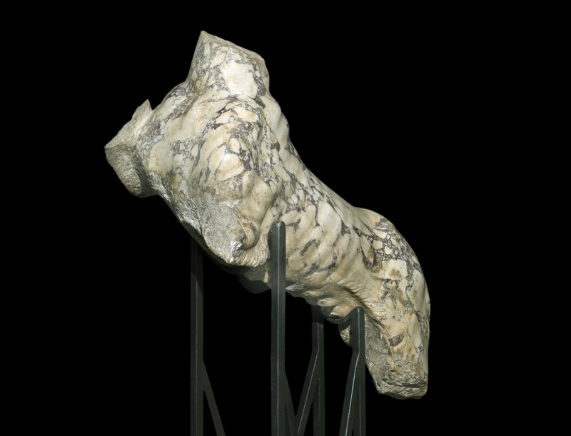 TIGRE II - III secolo d.C.-Marmo pavonazzetto